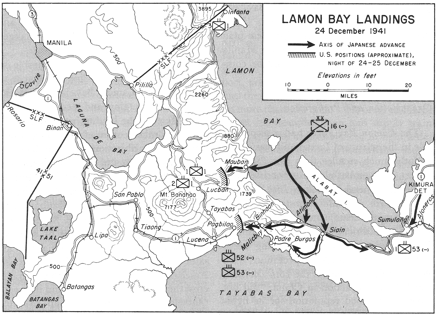 Japanese landings in Lamon Bay on Luzon island in the Philippines on December 24, 1941